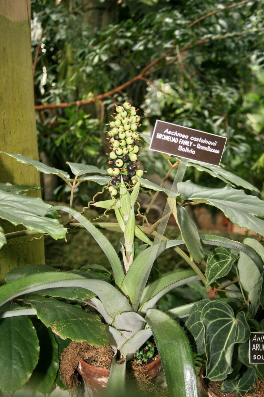 Aechmea castelnavii Member of the Bromeliad family - Bromeliaceae